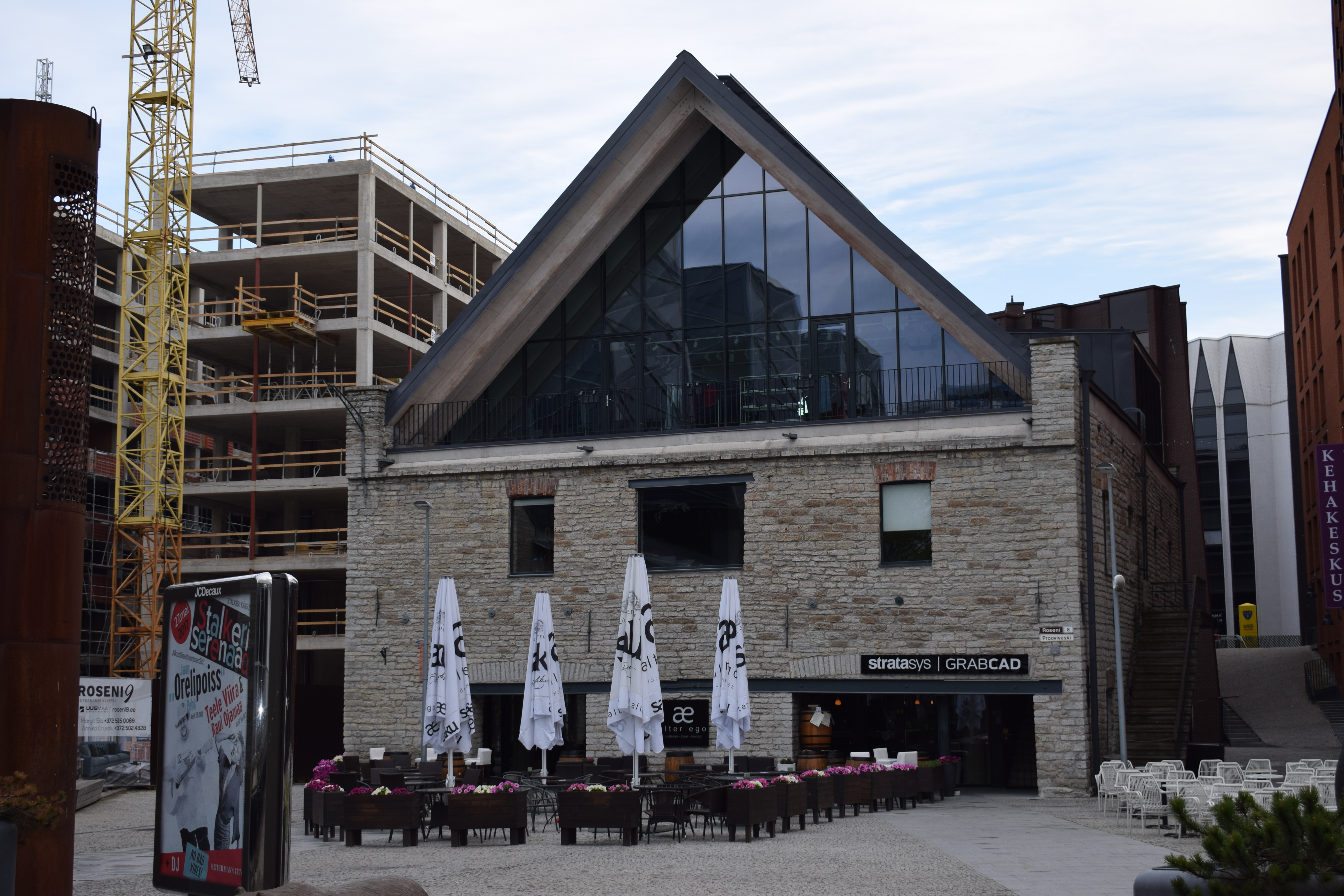 Roseni 8